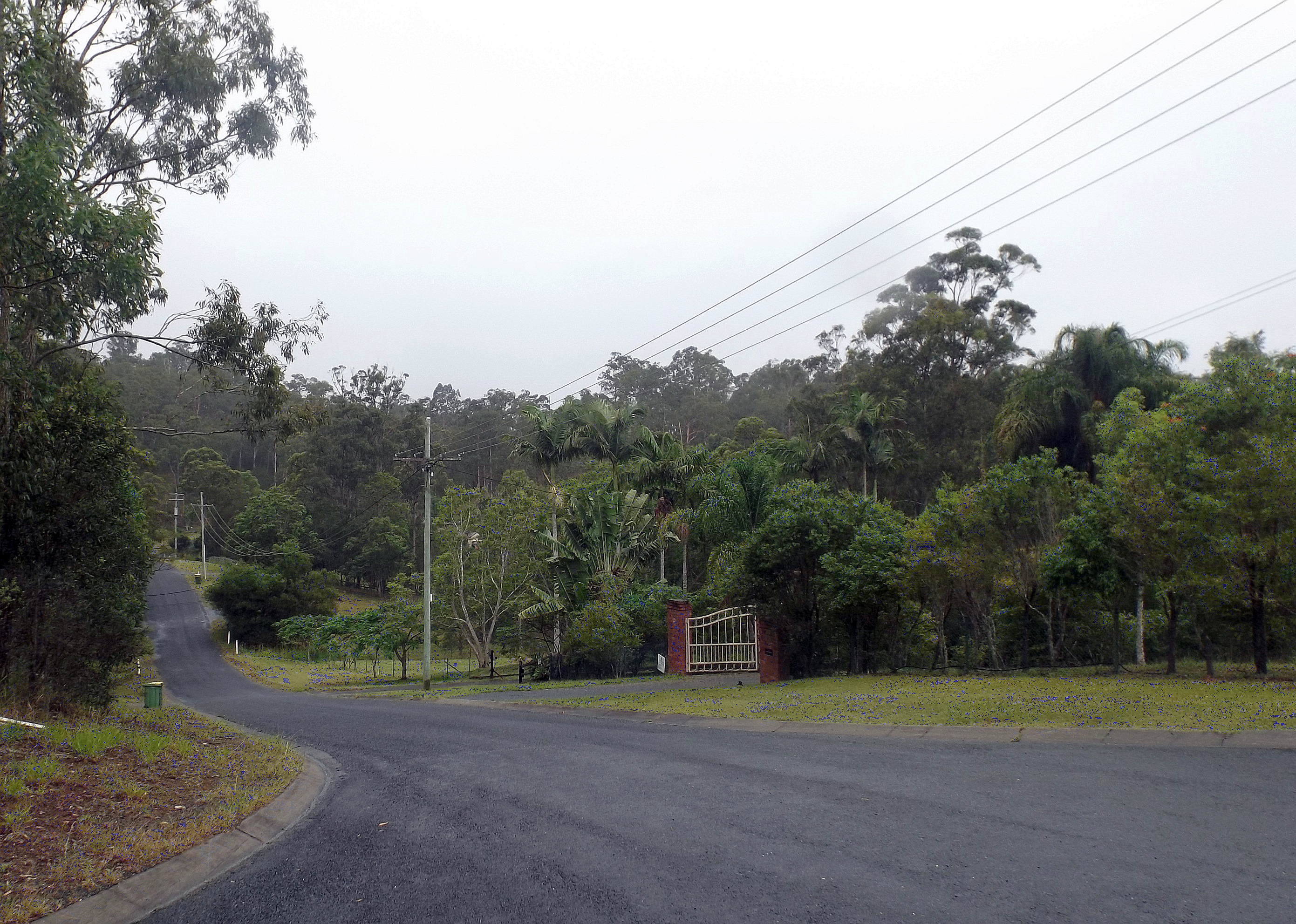 Photo of Parkway Drive at Advancetown, Gold Coast City, Queensland, Australia.